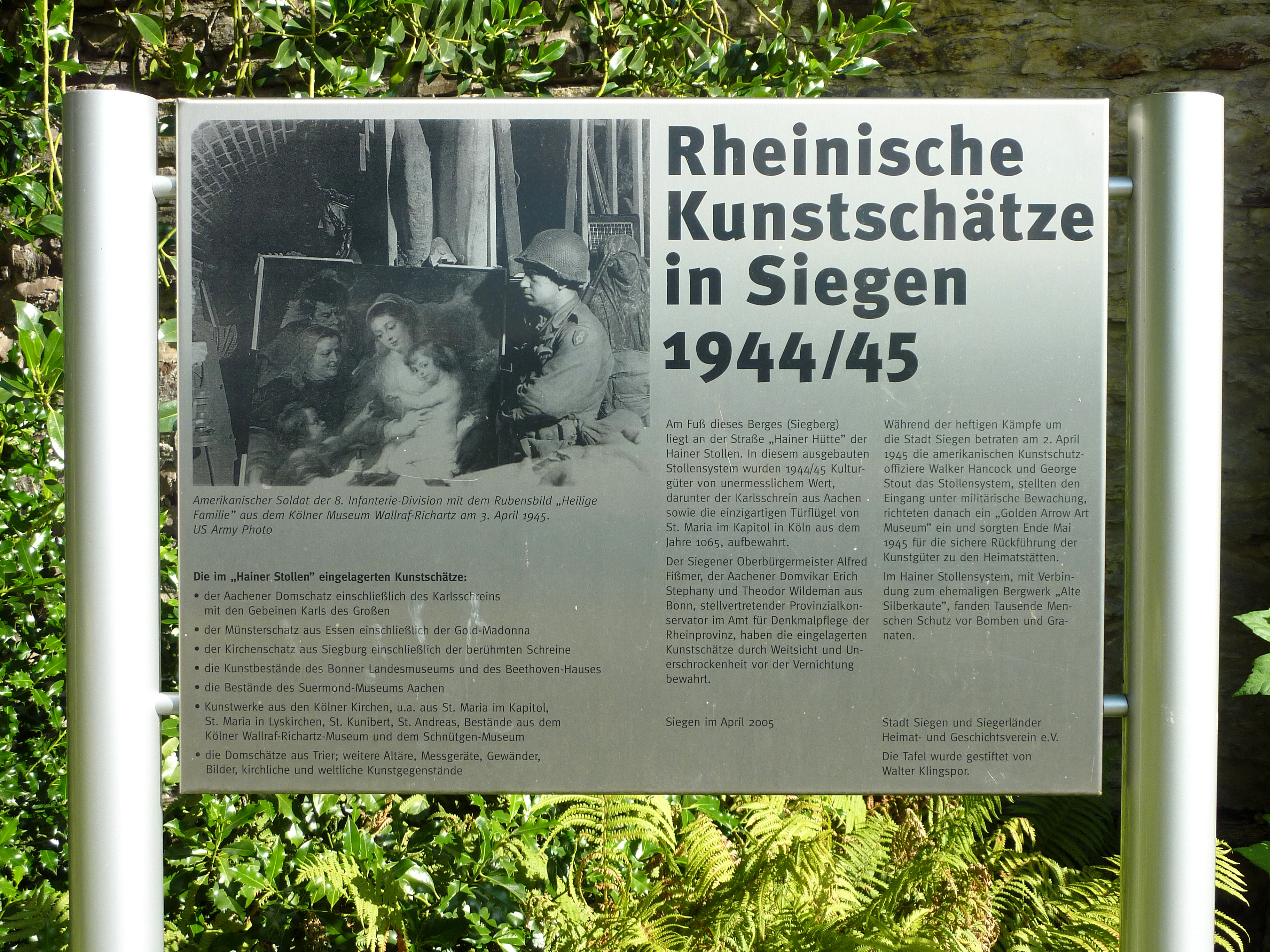 City of Siegen (Westphalia, Germany): Educational signage about the mining adit Hainer Stollen, located in the east side of the Siegberg mountain. During late WWII, this centuries-old iron ore mine was specially prepared in a secret operation of the national socialist regime. In 1944, it was used to host important cultural artifacts and pieces of art of Westphalian churches and museums as a protection from air raid damage. Among these items were the Aachen Cathedral Treasury (Aachener Domschatz) and the casket with the remains of Charlemagne (Karlsschrein). In April 1945, the treasury in the adit was detected by U.S. troops who returned the contents to their original places in May 1945.